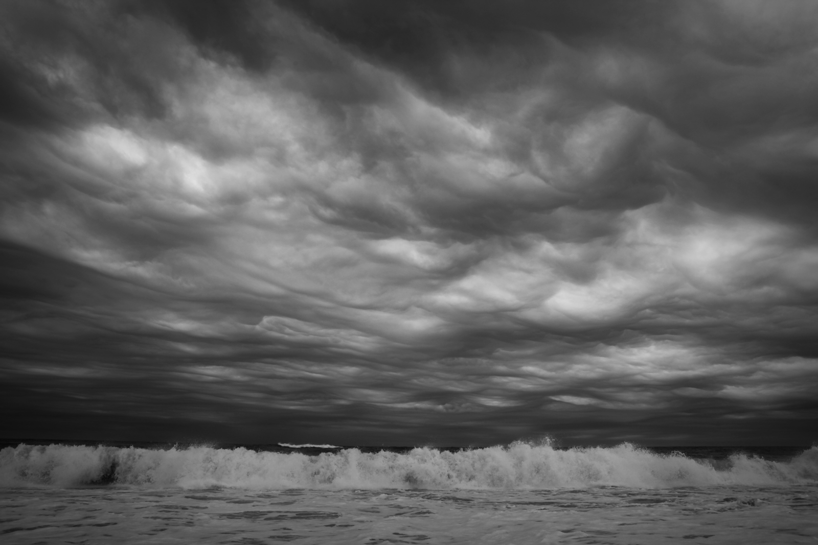 Overcast skies from offshore Tropical Storm Danny in August of 2009.